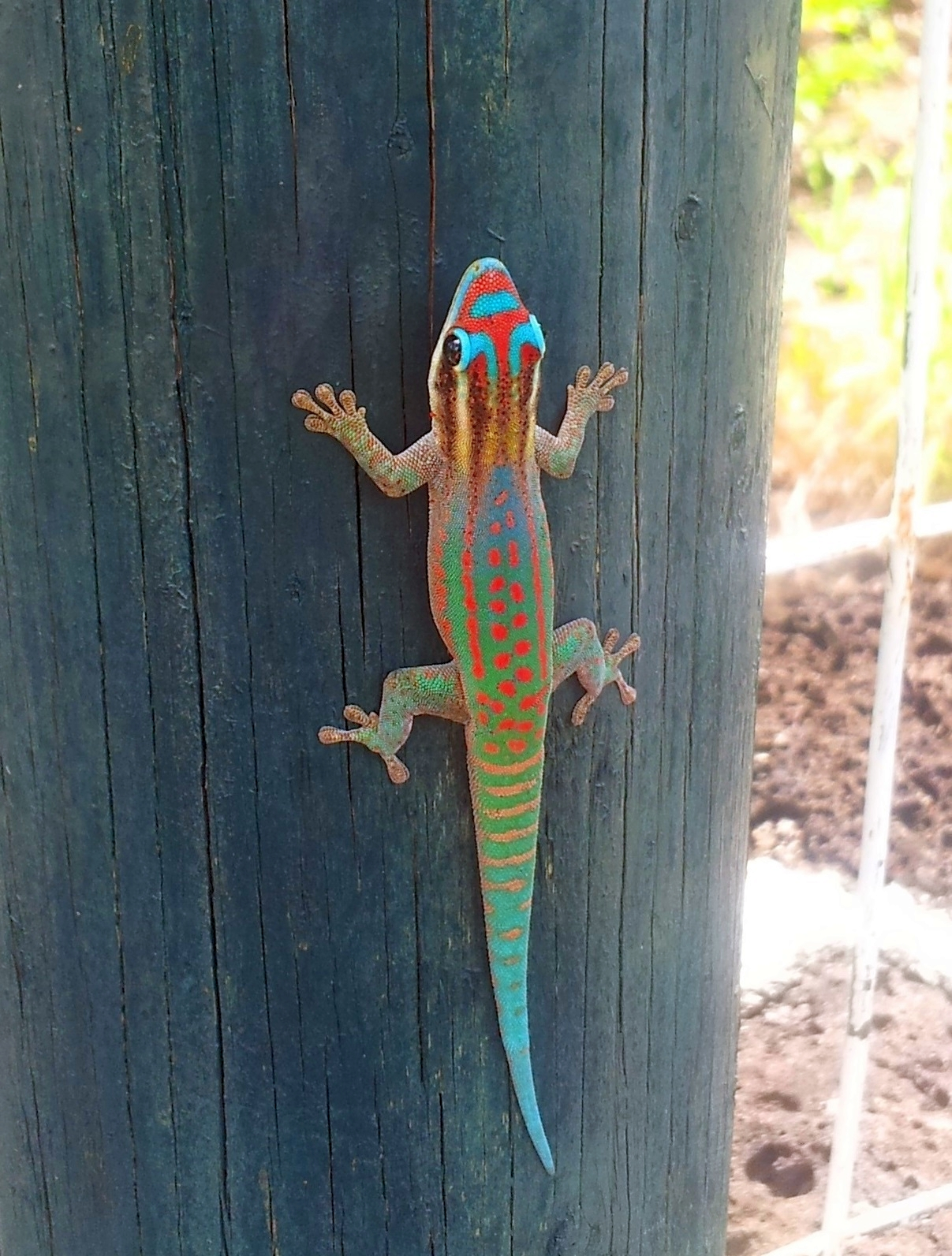 Ornate Day Gecko in Bras d'Eau NP - Phelsuma ornata